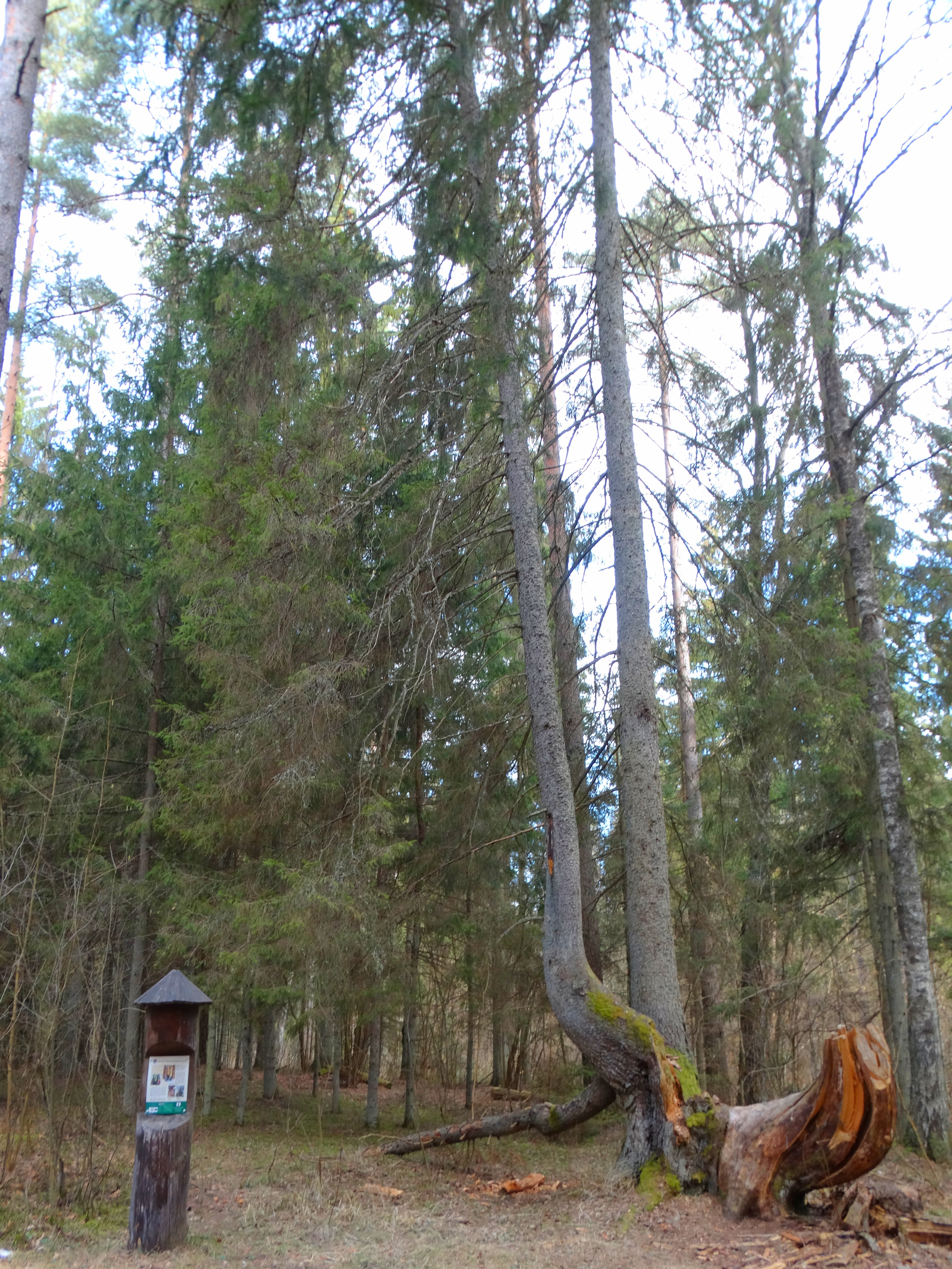 Spruce tree (formerly with 6 trunks), Bubiai, Šiauliai district, Lithuania